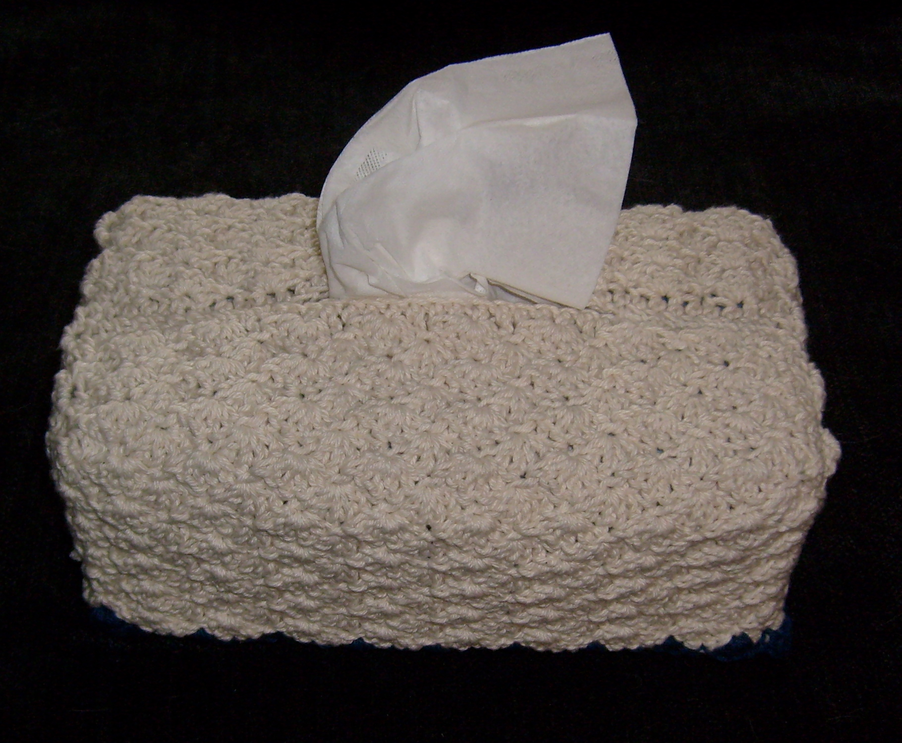 Facial tissue box cover. Crocheted cotton. Original design.